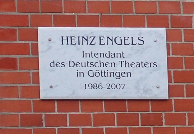 Commemorative plaque in tribute to Heinz Engels 9, Planckstraße, Göttingen, Germany.